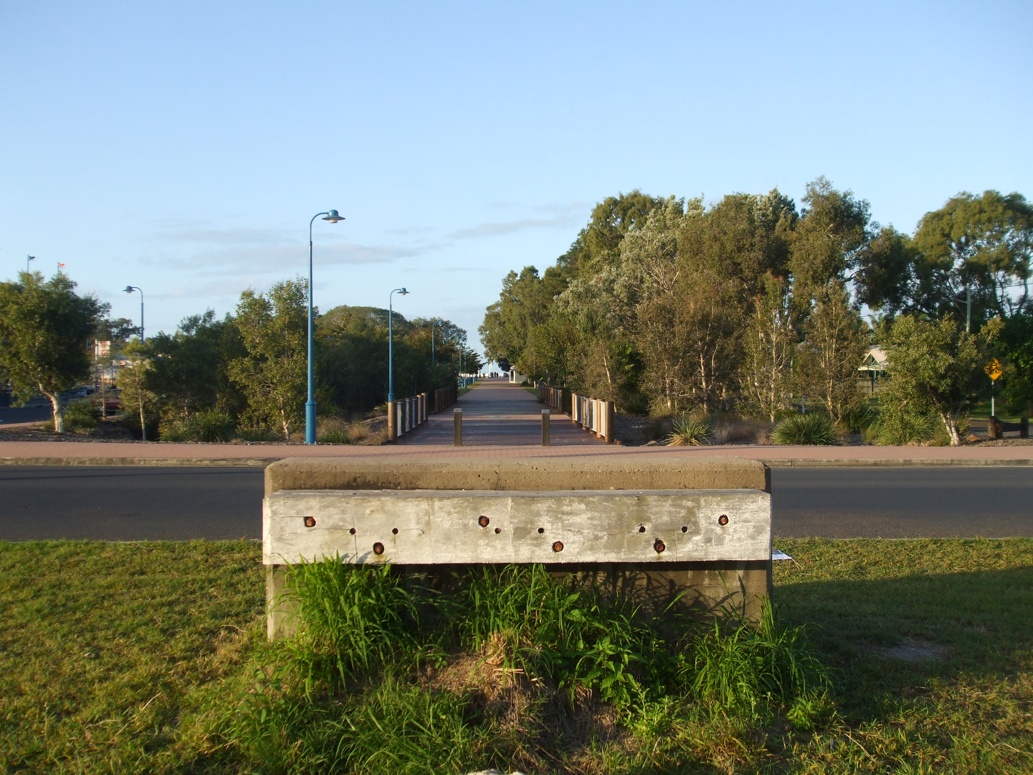 A rail stop at the Urangan Pier.